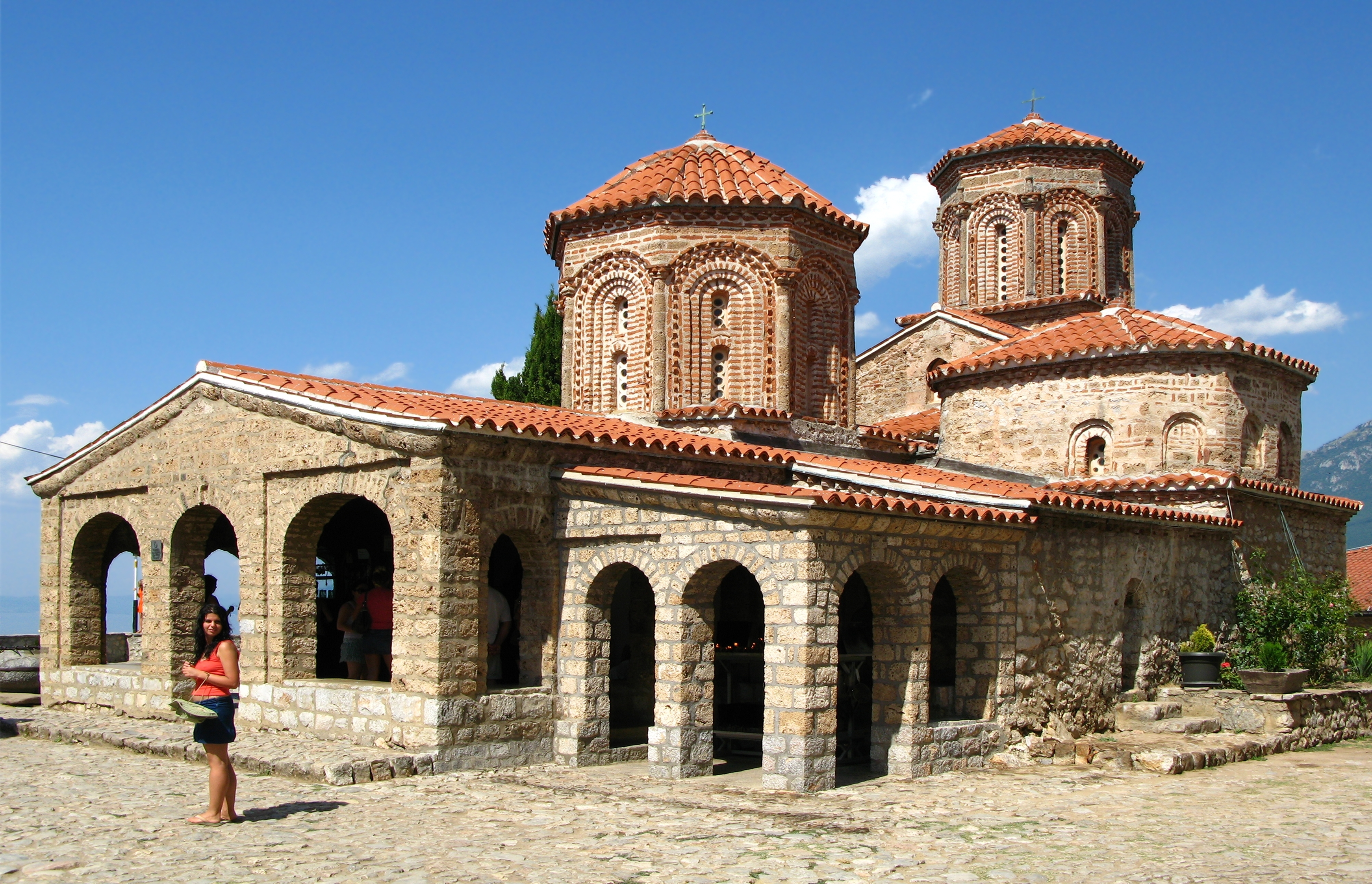 Church of St. Naum, St. Naum at Ohrid, Macedonia.